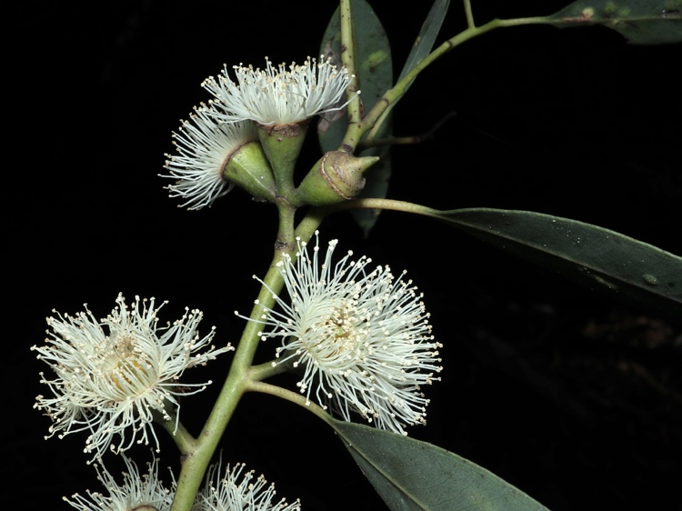 Flowers of Eucalyptus baeuerlenii in the Australian National Botanic Gardens